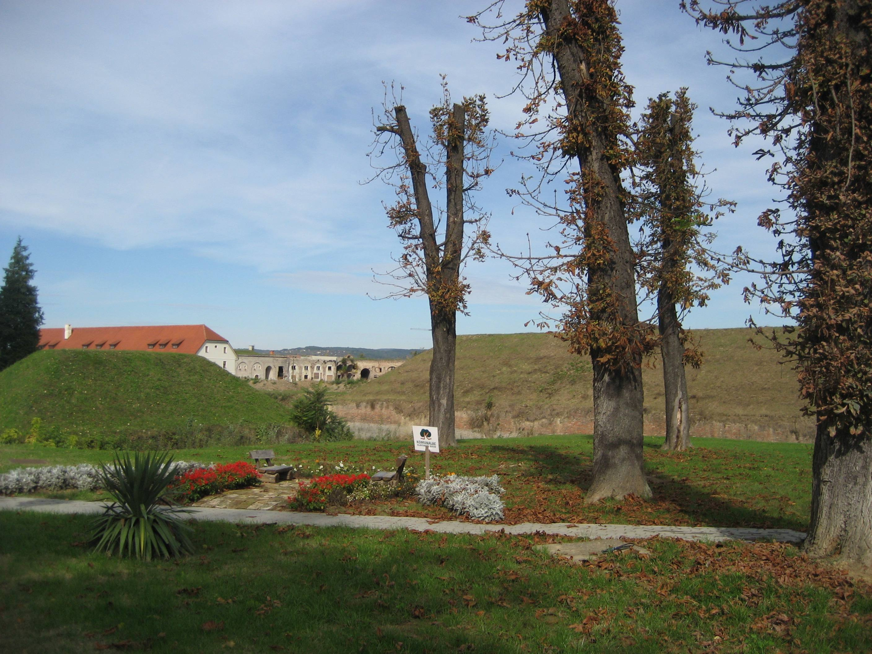 Slavonski Brod Fortress